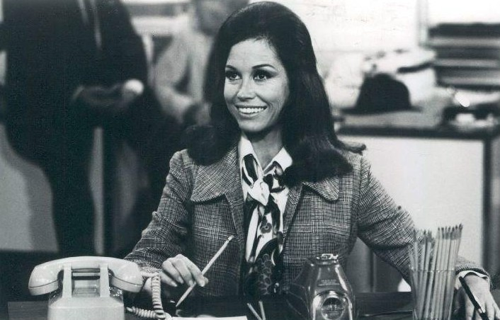 Photo scene from the television program The Mary Tyler Moore Show of Mary Tyler Moore (Mary Richards) at her desk in the WJM-TV newsroom. *Note - this came from a press release dated 1977. The scene is from a 1970 episode.*